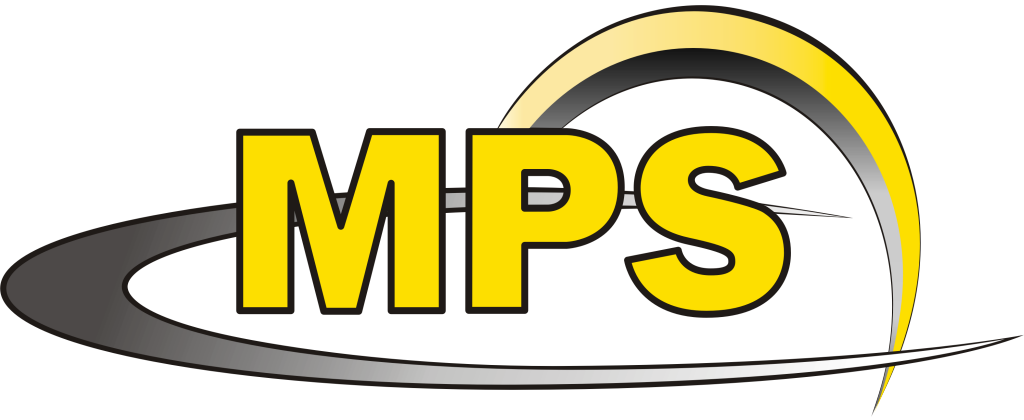 The Official Logo of the Max Planck Institute for Solar System Research